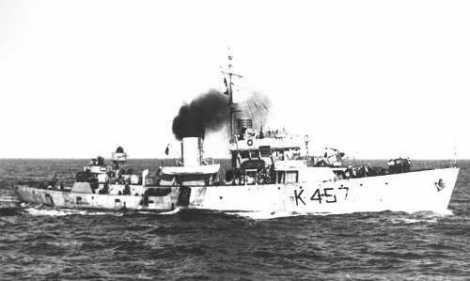 HMCS Stellarton- Flower class corvette (Revised).